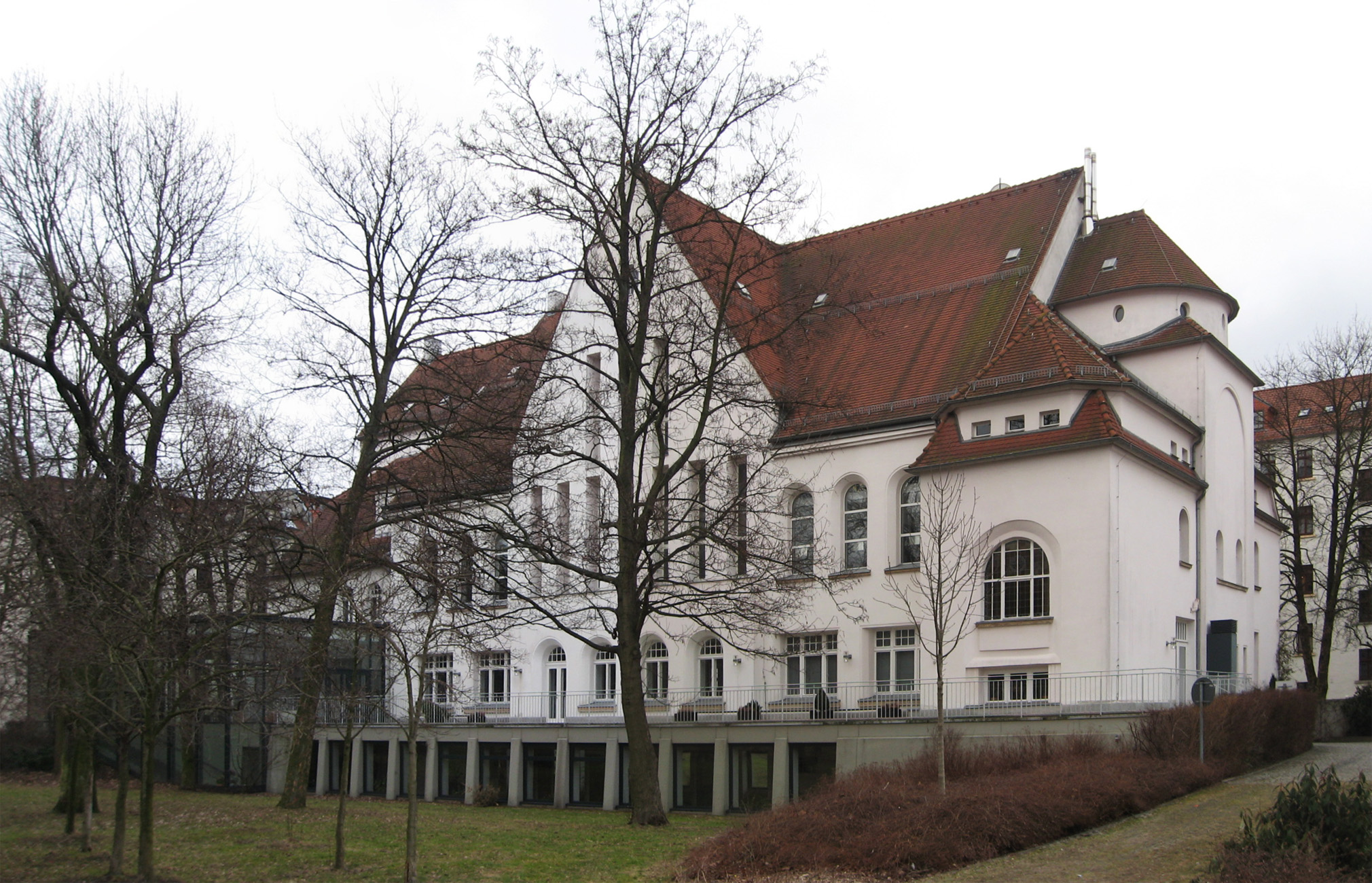 New Apostolic Church Leipzig-Mitte, Sigismundstrasse 5